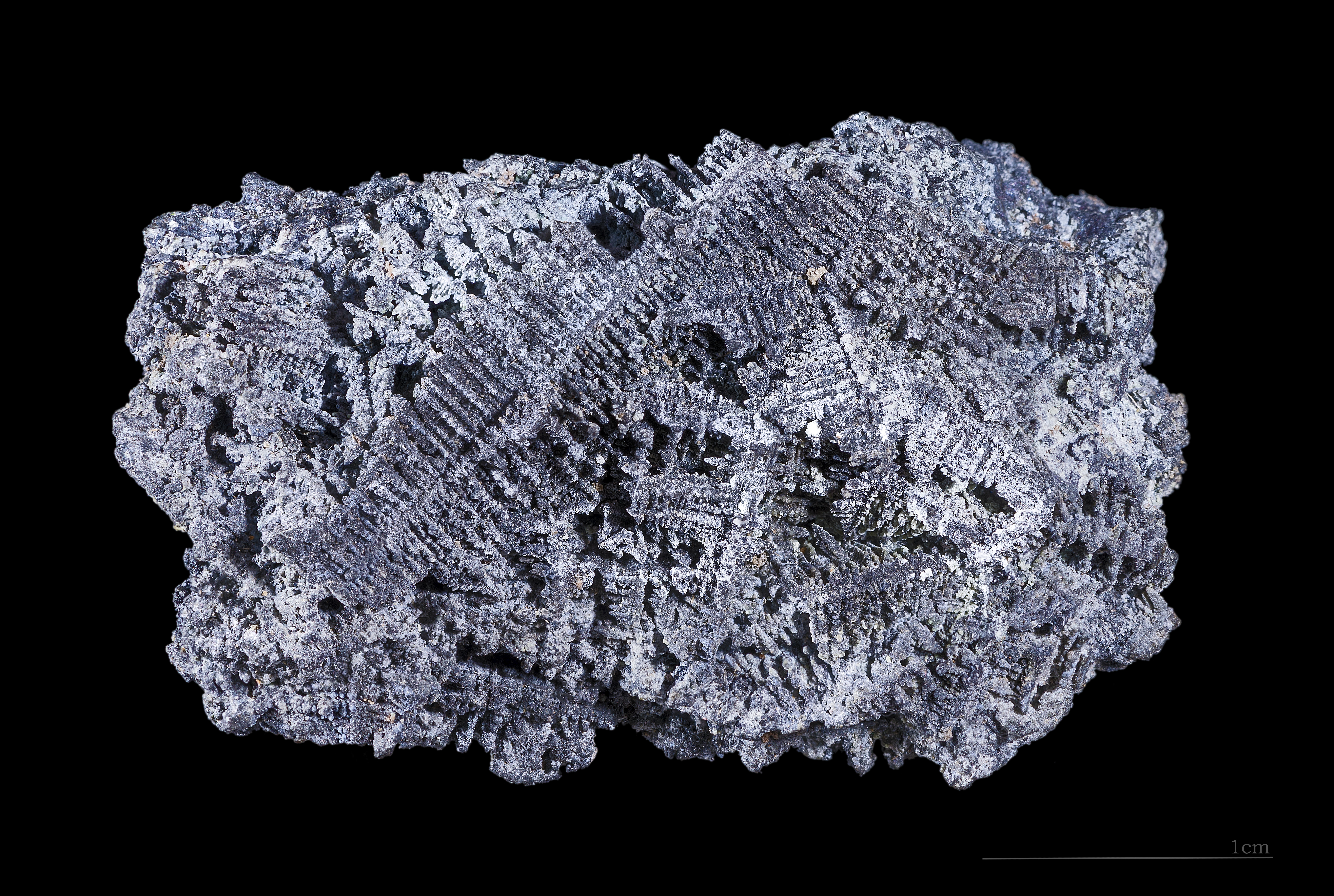 Smaltite Gistain Aragon (Spain)(4x2,5cm)